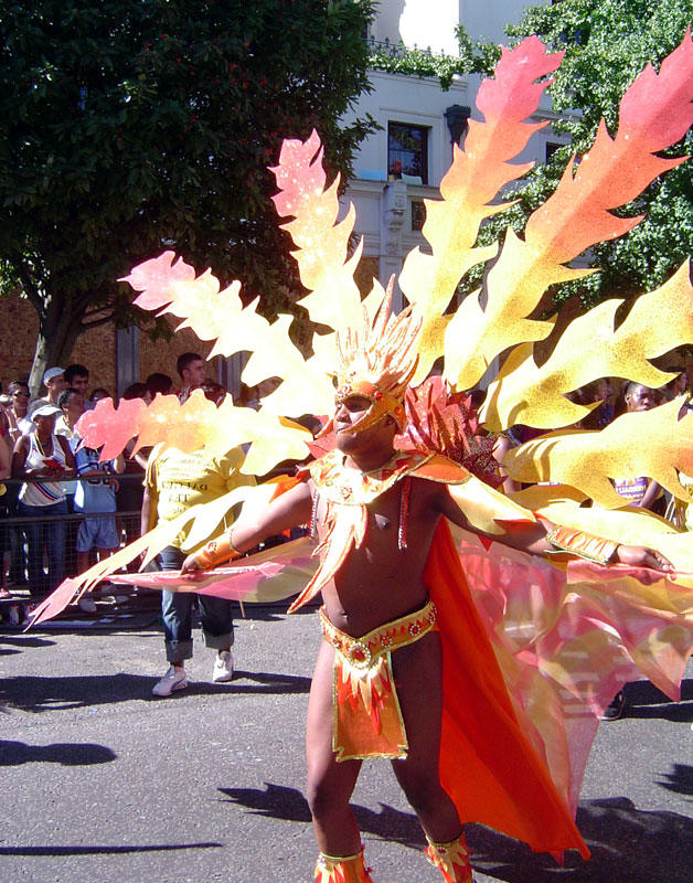 Participant in the Notting Hill Carnival parade Image by ChrisO